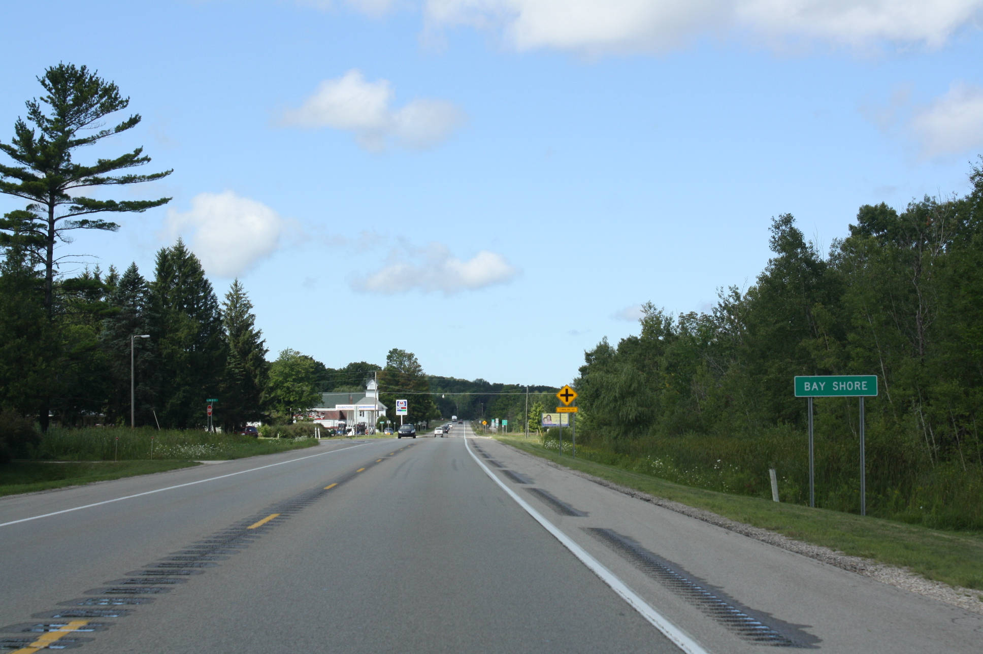 The sign for Bay Shore, Michigan on U.S. Route 31.